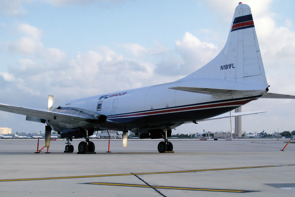 Convair 580 freighter N181FL of IFL Group at Miami International Airport in April 2009